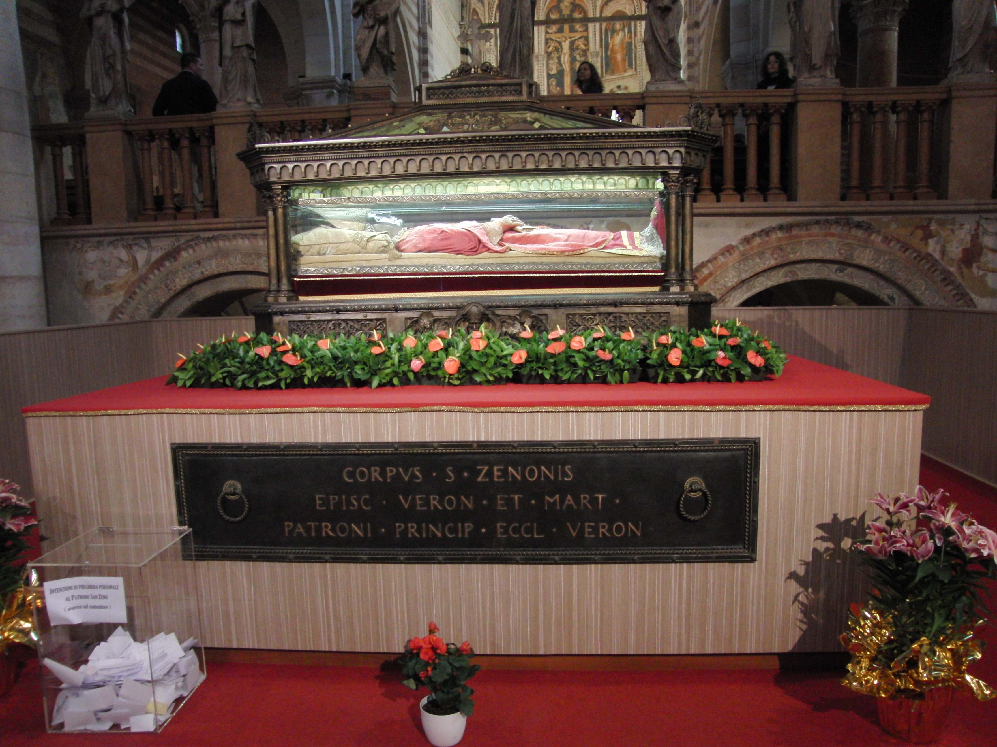 St Zeno's body removed from the crypt of Verona Cathedral in preparation of its processing through Verona on 21st May 2012.